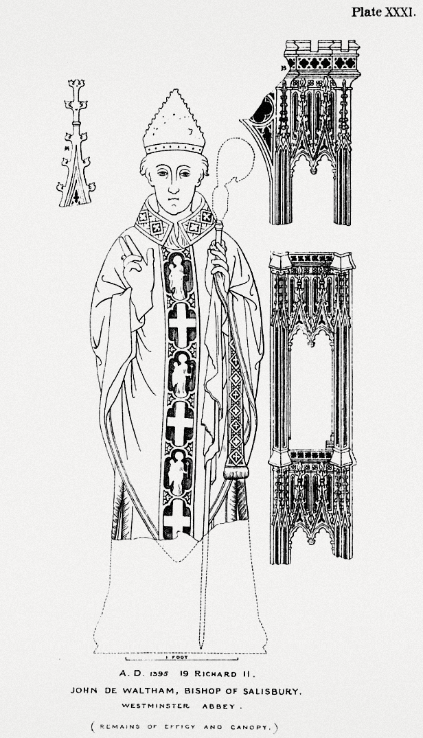 1860 illustration of the monumental brass of John de Waltham, Lord High Treasurer and Lord Privy Seal of England, Bishop of Salisbury 1388–1395. His tomb is in the Edward the Confessor Chapel of Westminster Abbey.